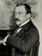 From a book published in 1894